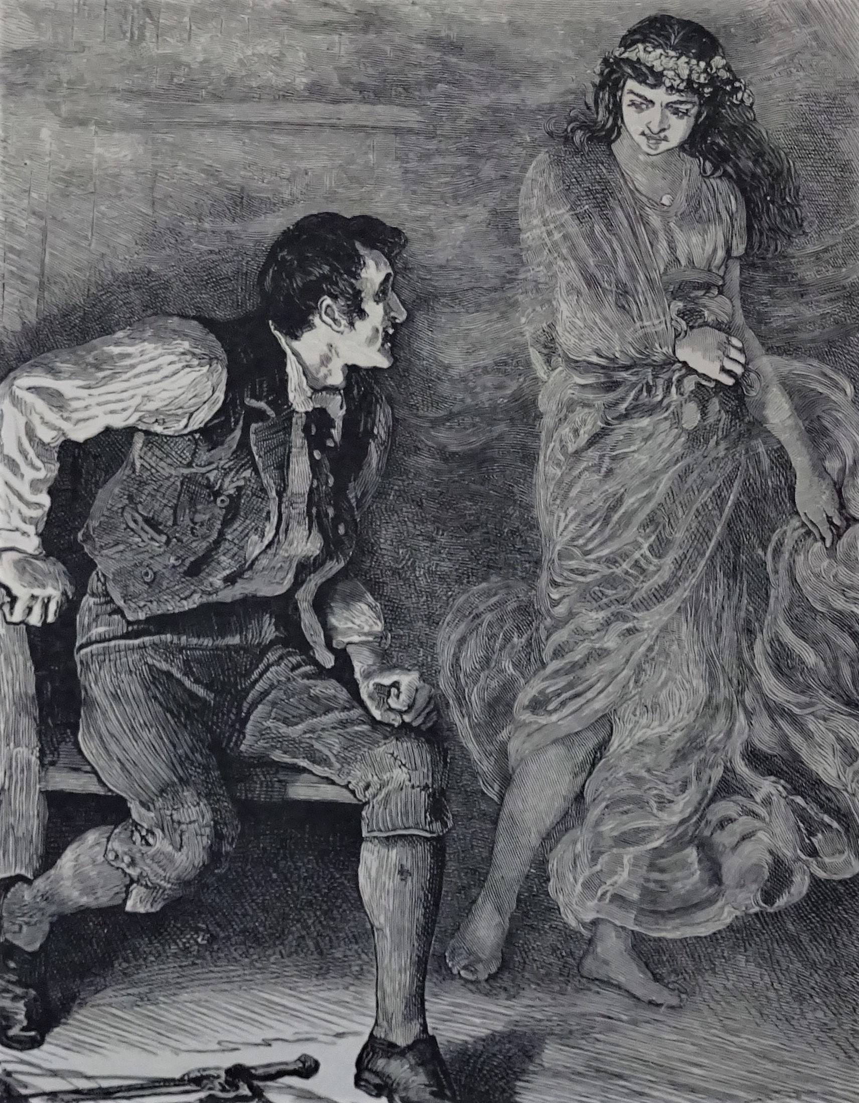 Robert Burns and his poetic Coila from his poem the 'The Vision'